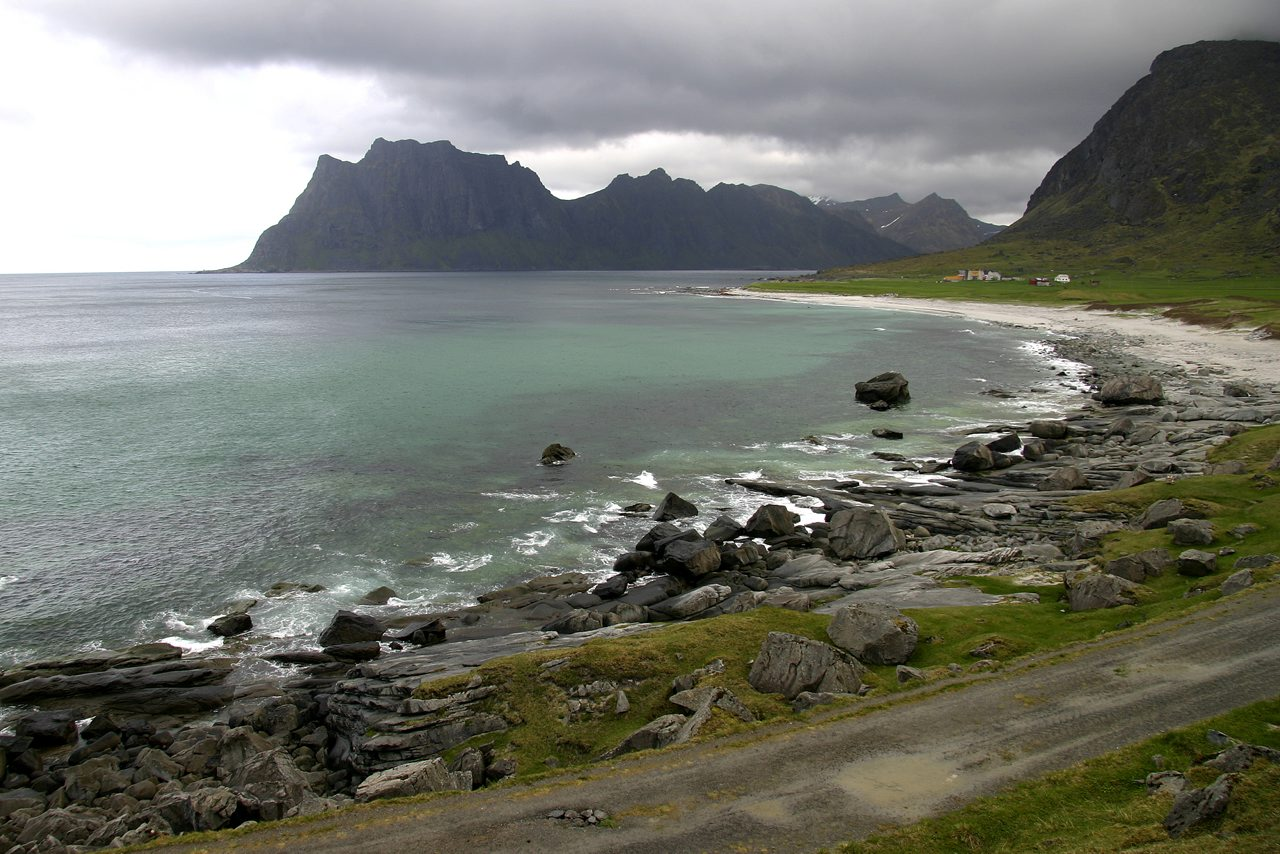 Utakleiv beach, Lofoten - Norway. Utakleiv is by the British newspaper The Times ranked as the number one most romantic beach in Europe.